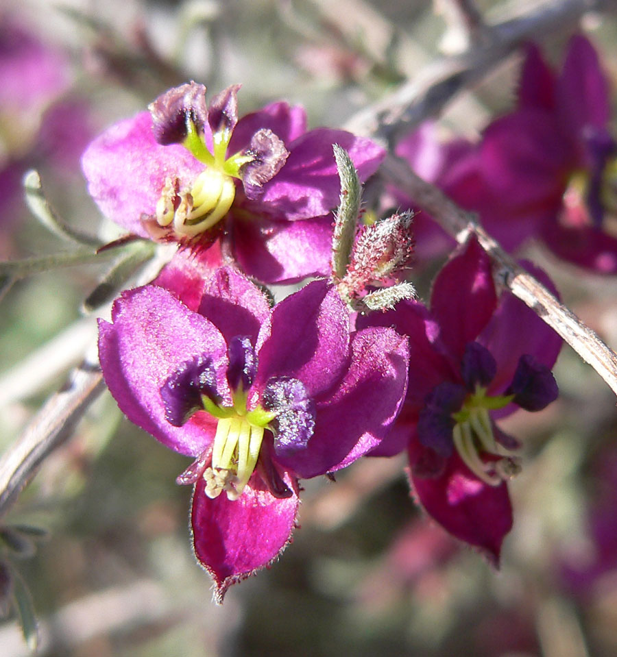 Krameria erecta on Blue Diamond Hill, Red Rock Canyon, southern Nevada